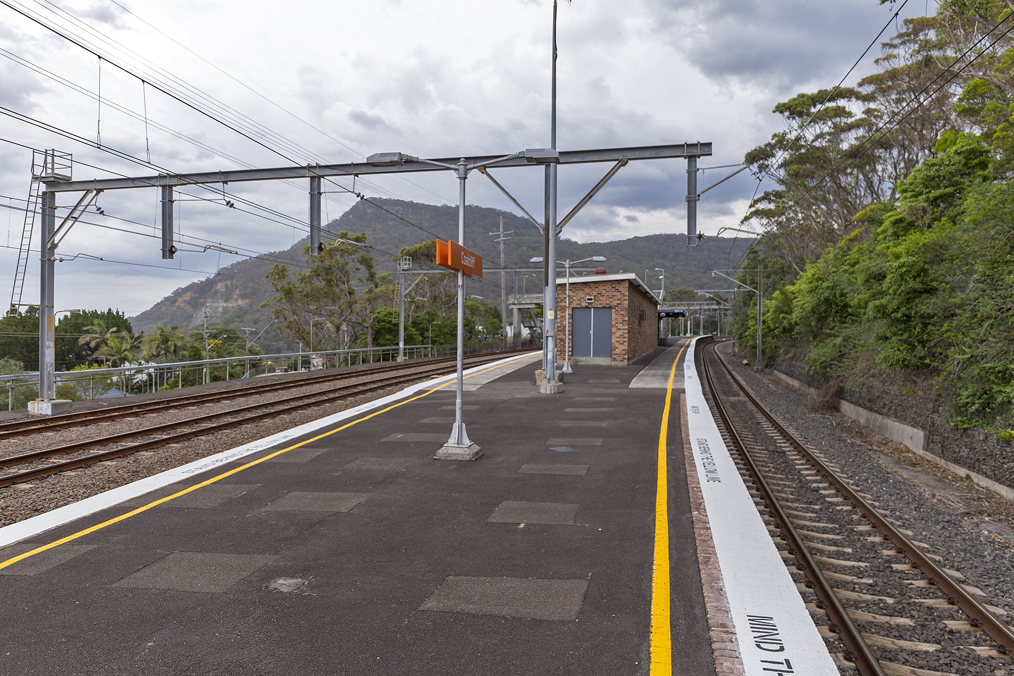 Looking south down the South Coast line at Coalcliff Station.